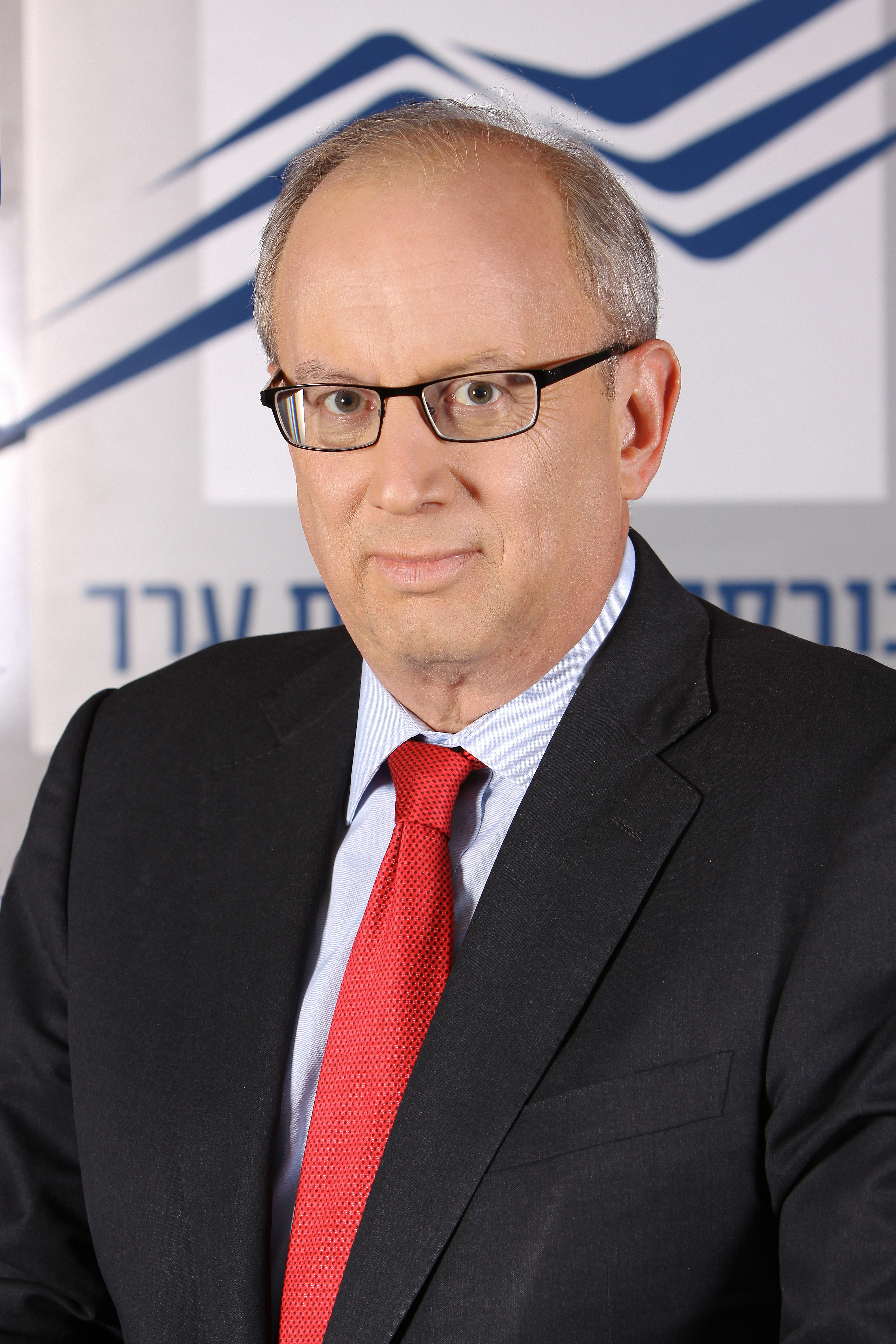 Yossi Beinart, Tel Aviv Stock Exchange Chief Executive Officer